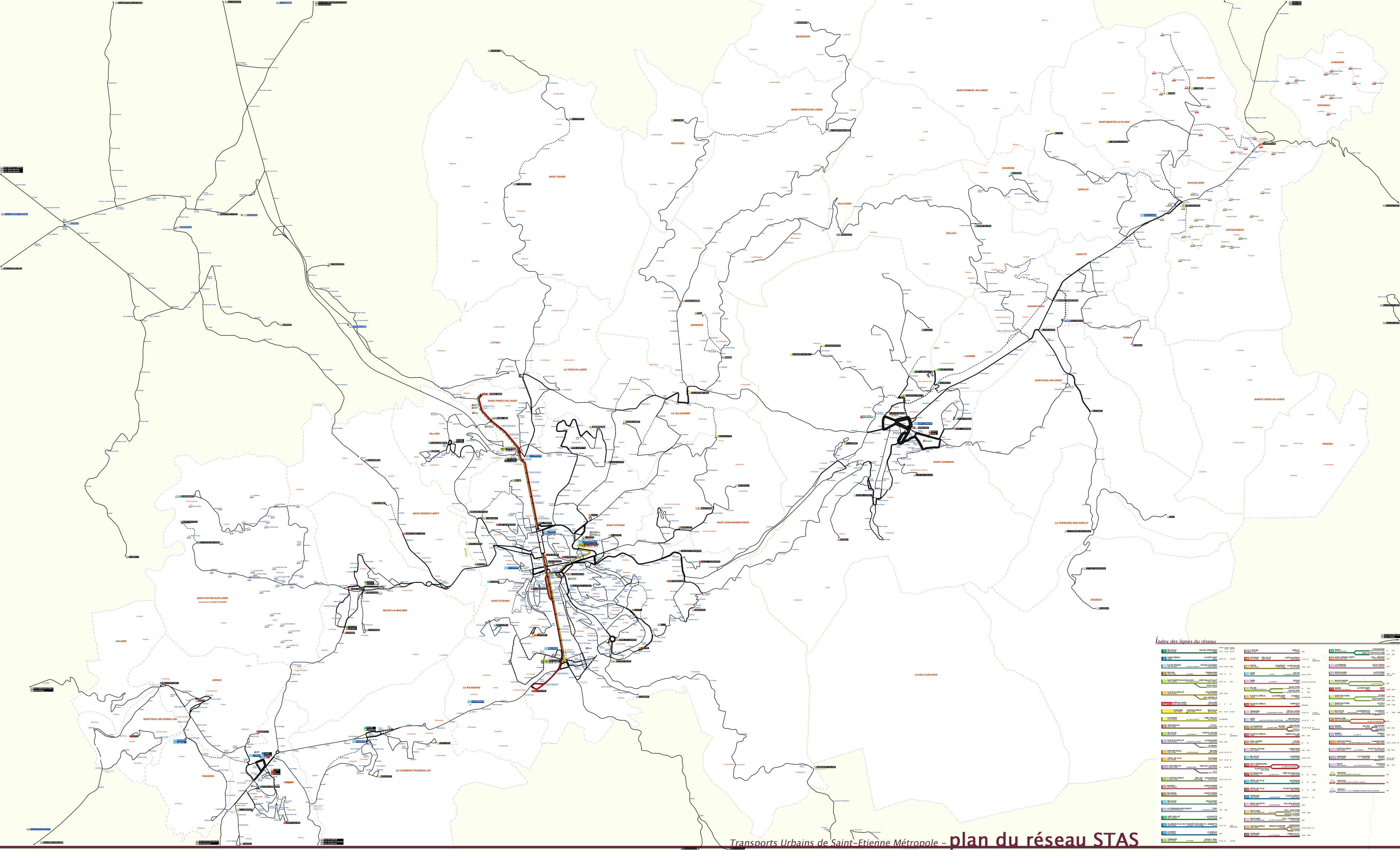 A map of the Bus and Tram network in Saint Etienne Métropole